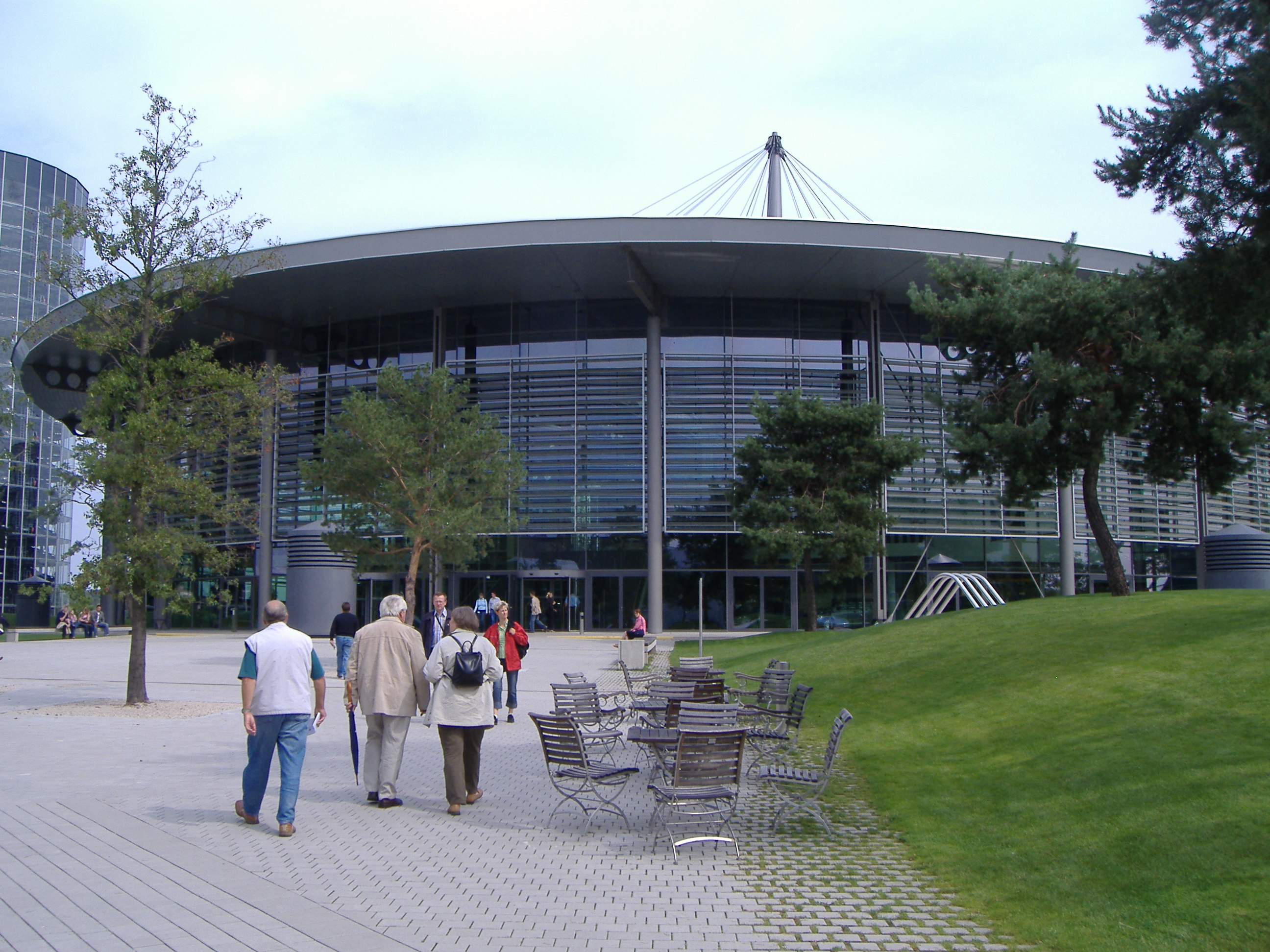 Created by Erebus555. This is the VW pavilion at the Autostadt.